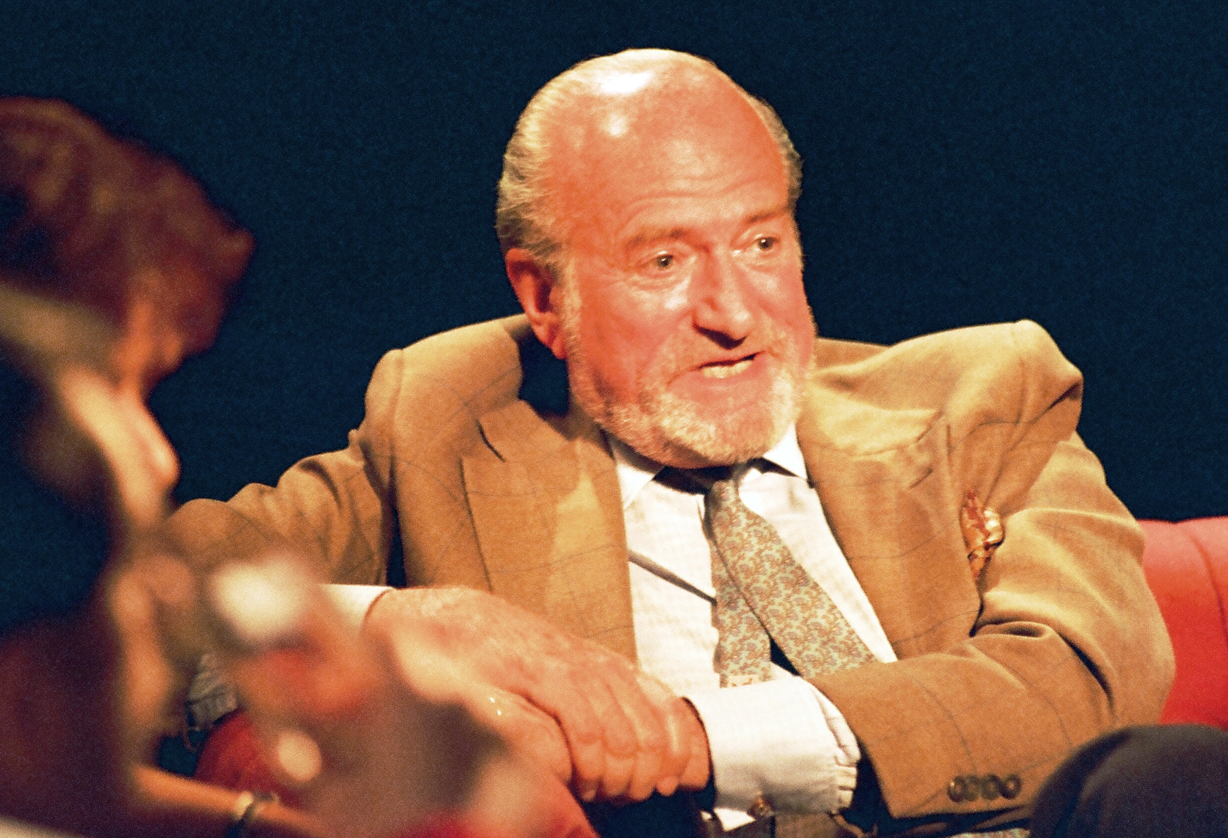 Claus von Bülow appearing on After Dark on 13 September 1997